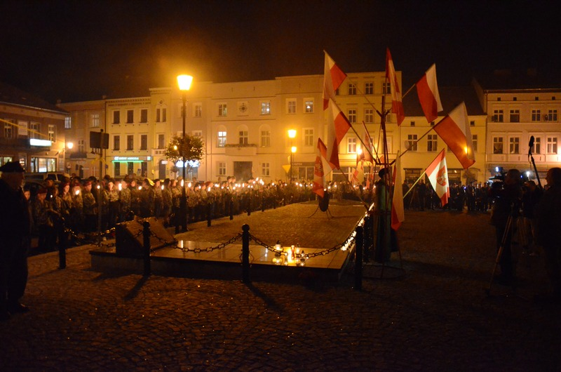 Śrem, 73rd ceremony anniversary of the Sons of Śrem shot.